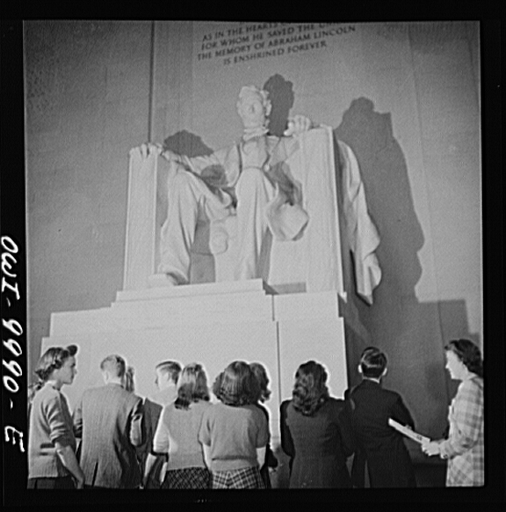 Title: Washington, D.C. Under the auspices of the Bureau of University Travel and the National Capital School Visitors' Council, over 200 high school students chosen for their intellectual alertness visited Washington for a week. At the Lincoln Memorial